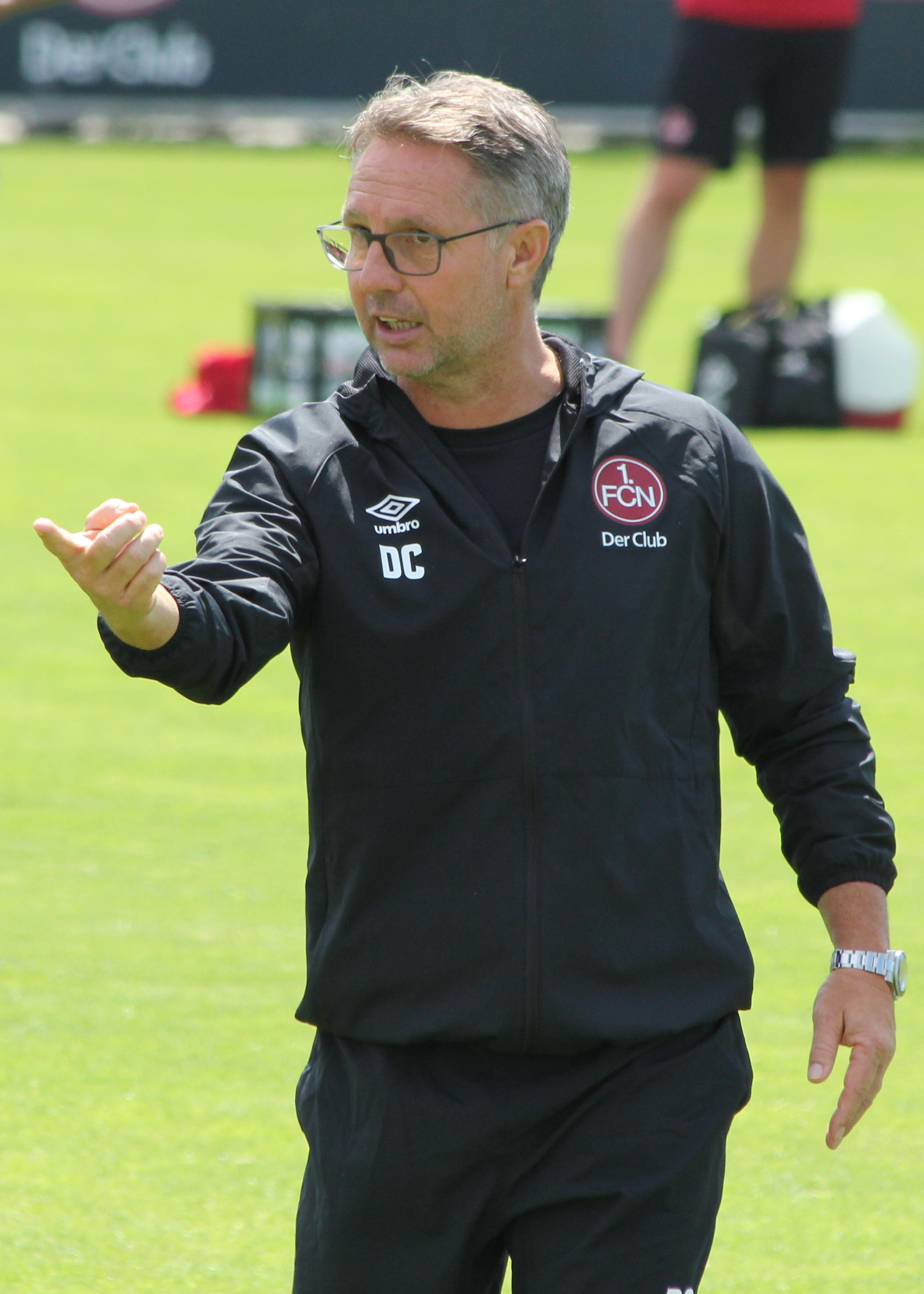 Damir Canadi, Austrian football coach for German side 1. FC Nürnberg, 2019/20 season